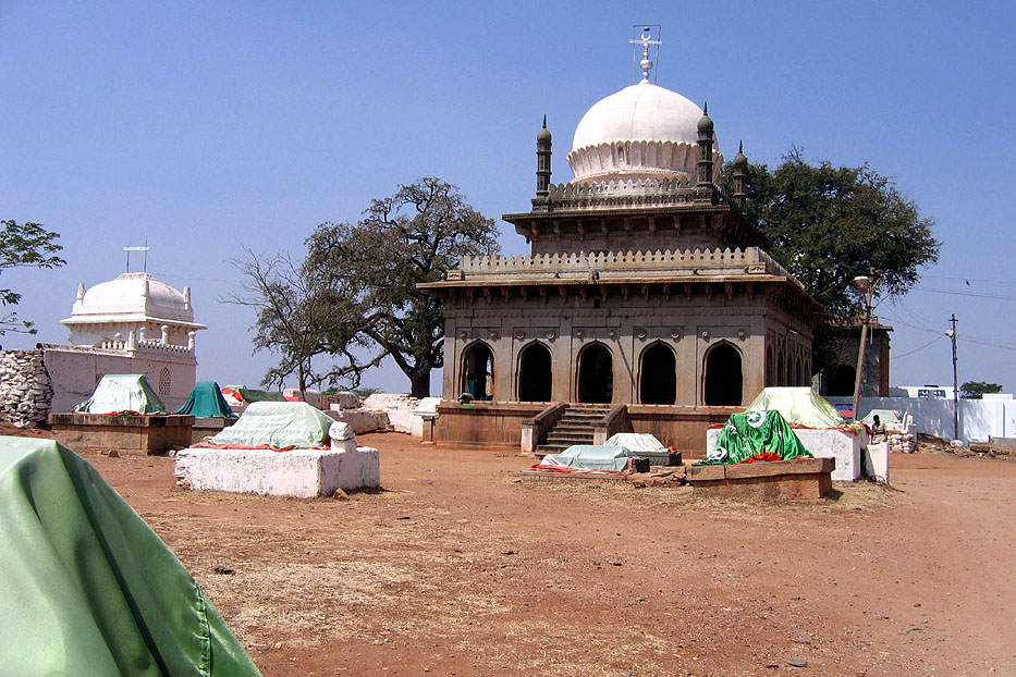 Tomb of 'Hazrath' Mallik Rehan